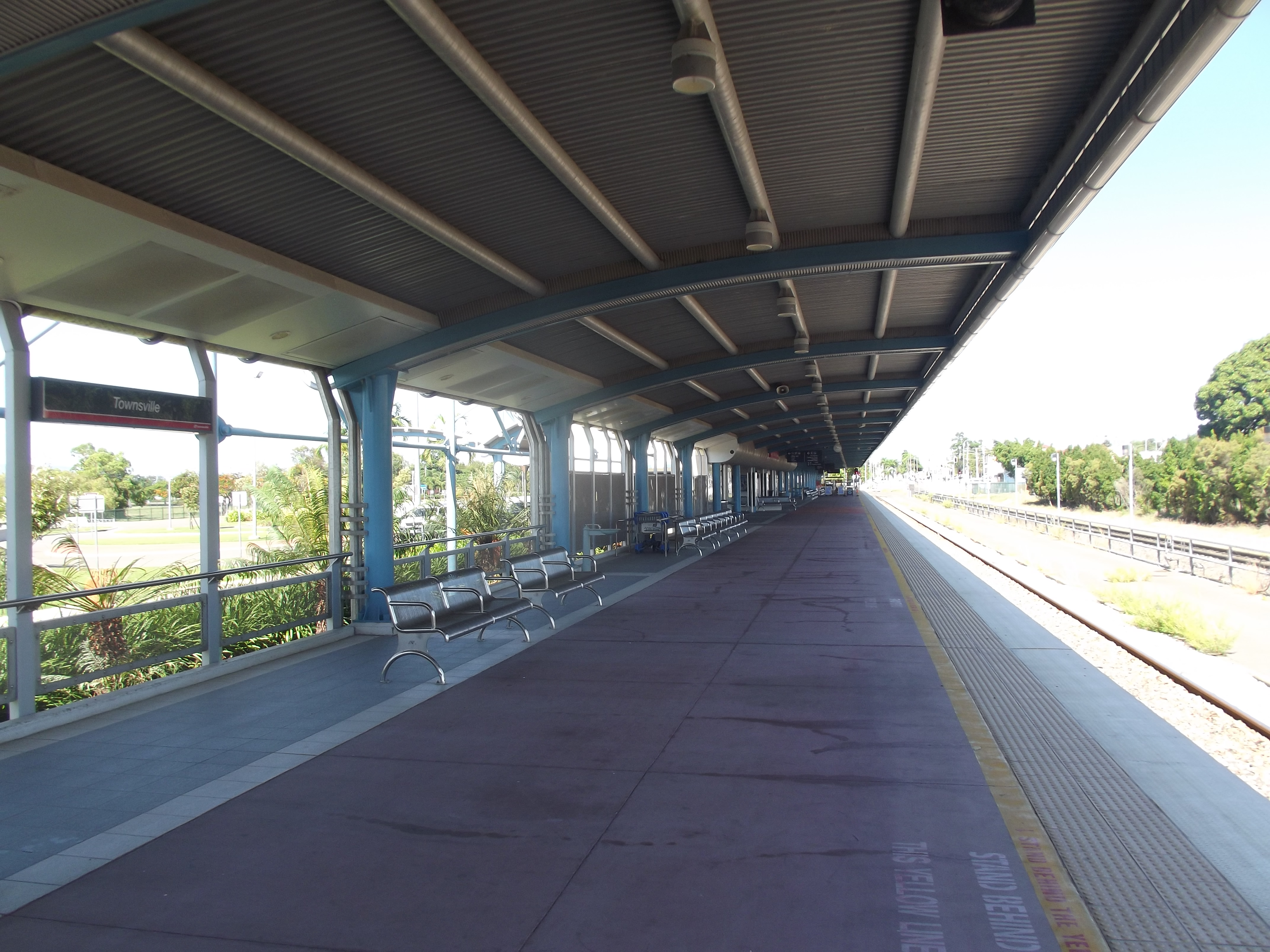 Townsville railway station, a major stop on the North Coast line.